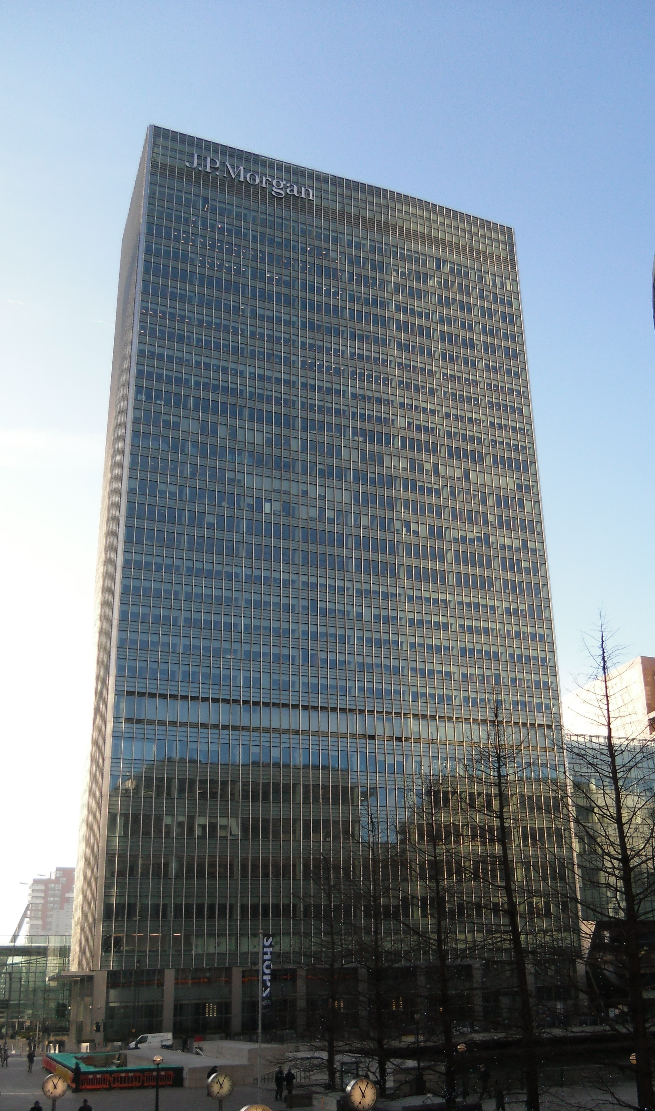 25 Bank Street - office tower in the Canary Wharf business district in east London, United Kingdom